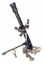 M252 mortar